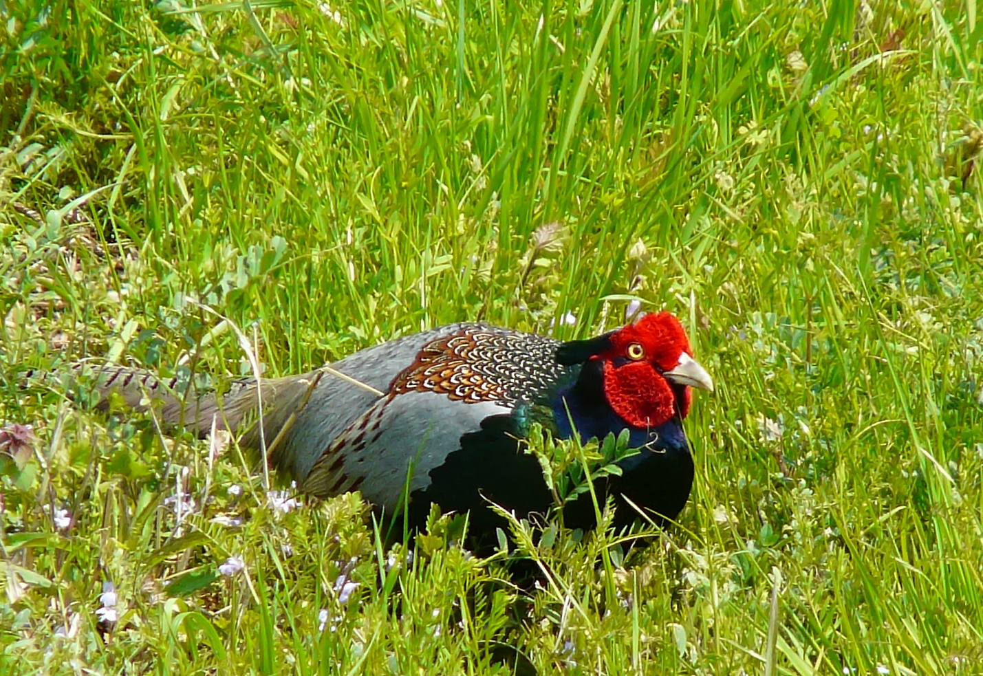 He appeared again in the field next to my house with a female pheasant. congratulations ! What a brightly colored wild life. The Green Pheasant is the bird of Japan, but I have never seen it before taking photos.